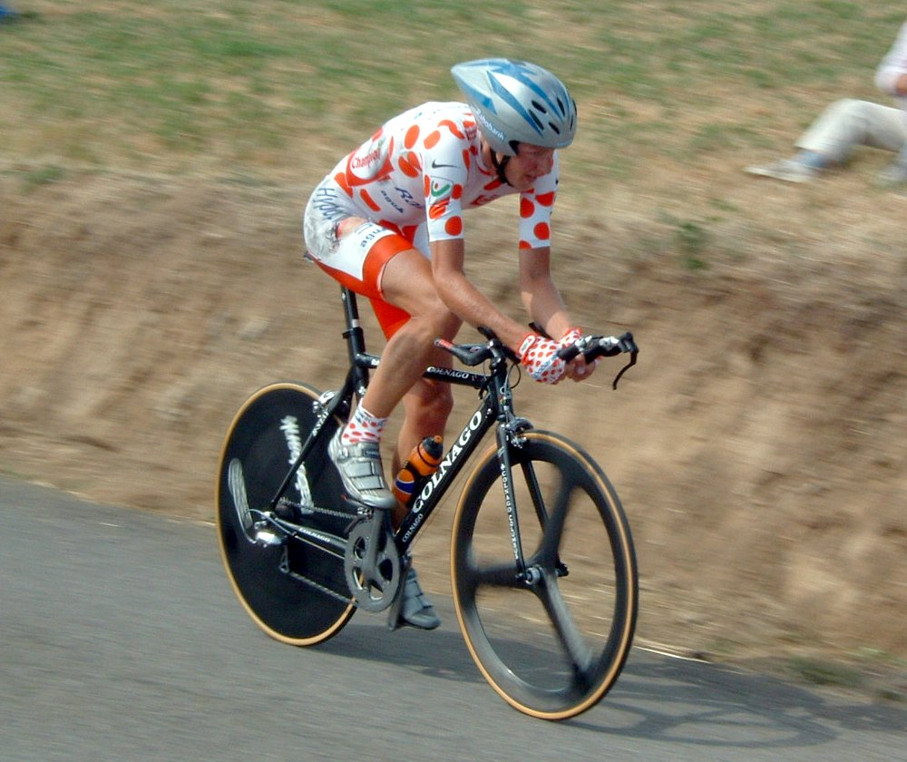 Danish cyclist Michael Rasmussen (Team Rabobank) during Stage 20 (Individual Time Trial, St Etienne) of the 2005 Tour de France. He is wearing the King of the Mountains polka-dot jersey and is showing damage from the first of two falls. He started the day 3rd on the General Classification but dropped to 7th after finishing the time-trial in 77th position, 7.47 minutes behind winner, Lance Armstrong. Photo by Gsl near St Heand, 23 July 2005.